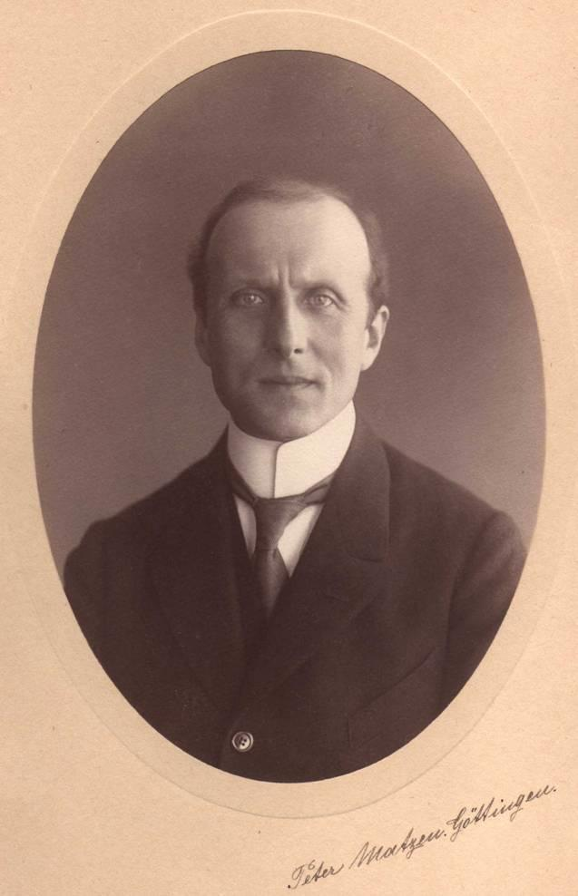 Greek mathematician Constantin Caratheodory (Κωνσταντίνος Καραθεοδωρής) (1873-1950)